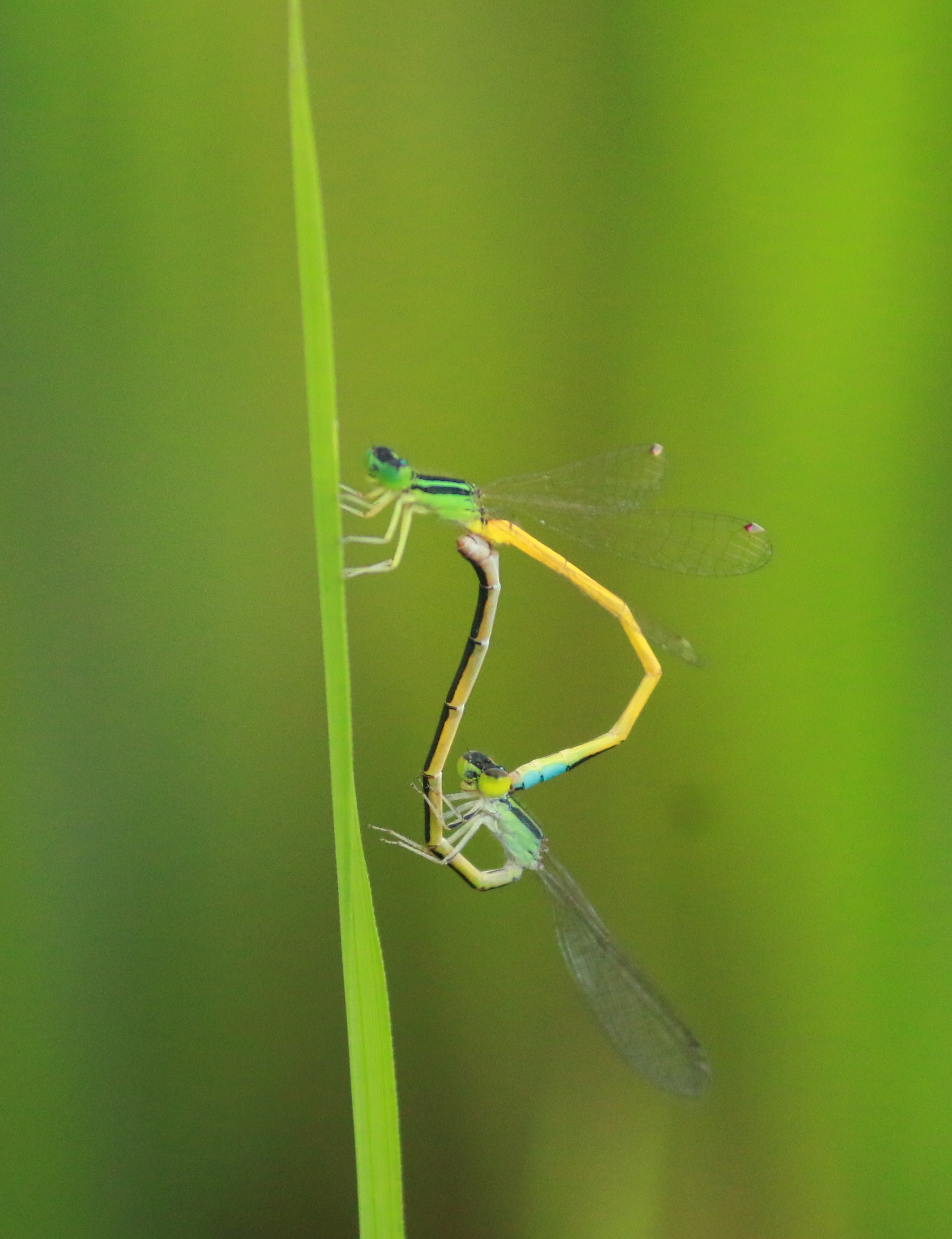 Western Golden Dartlet , Ischnura rubilio)